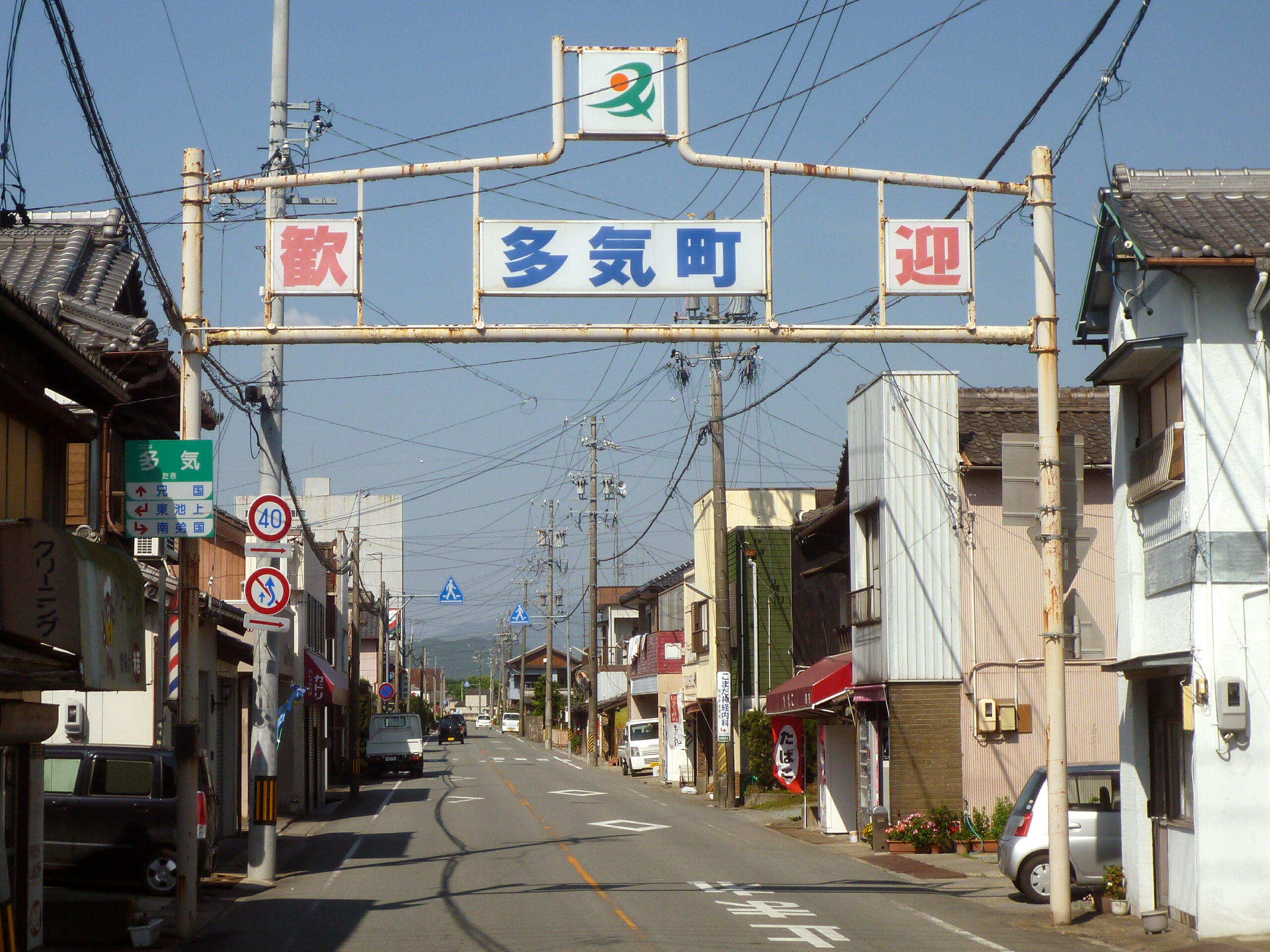 Welcome Sign in front of Taki Station.